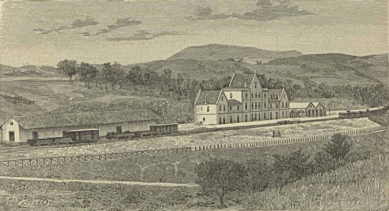 Drawing of the Mirandela train station, on the Tua Railway, in Portugal. It was inaugurated on the 29th September 1887. This image was originally published in the Occidente magazine No. 473, of the 11th February 1892, and scanned by the Hemeroteca Municipal de Lisboa.